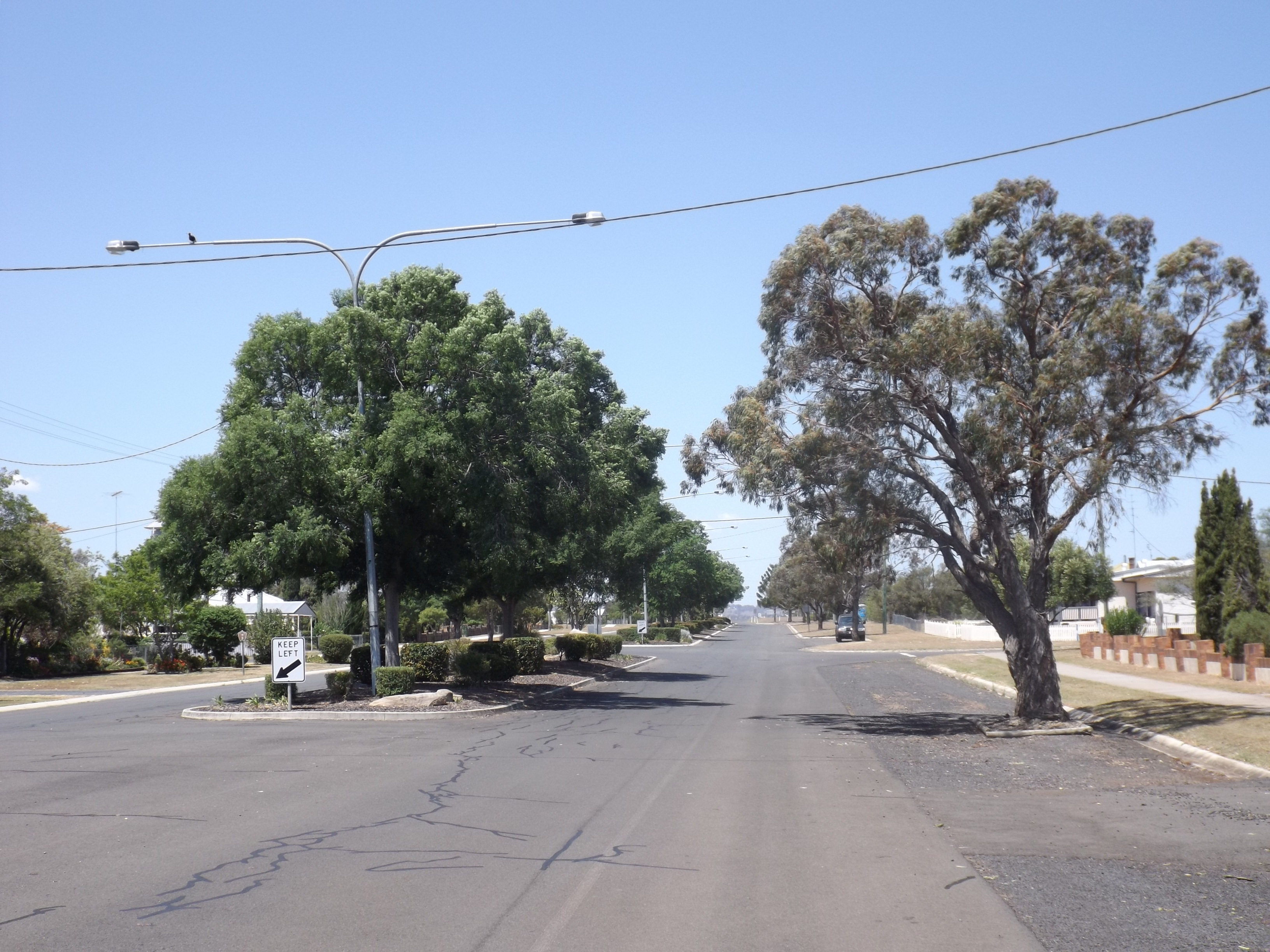 Photo of Eton Street Cambooya, Queensland, Australia. View is facing east.